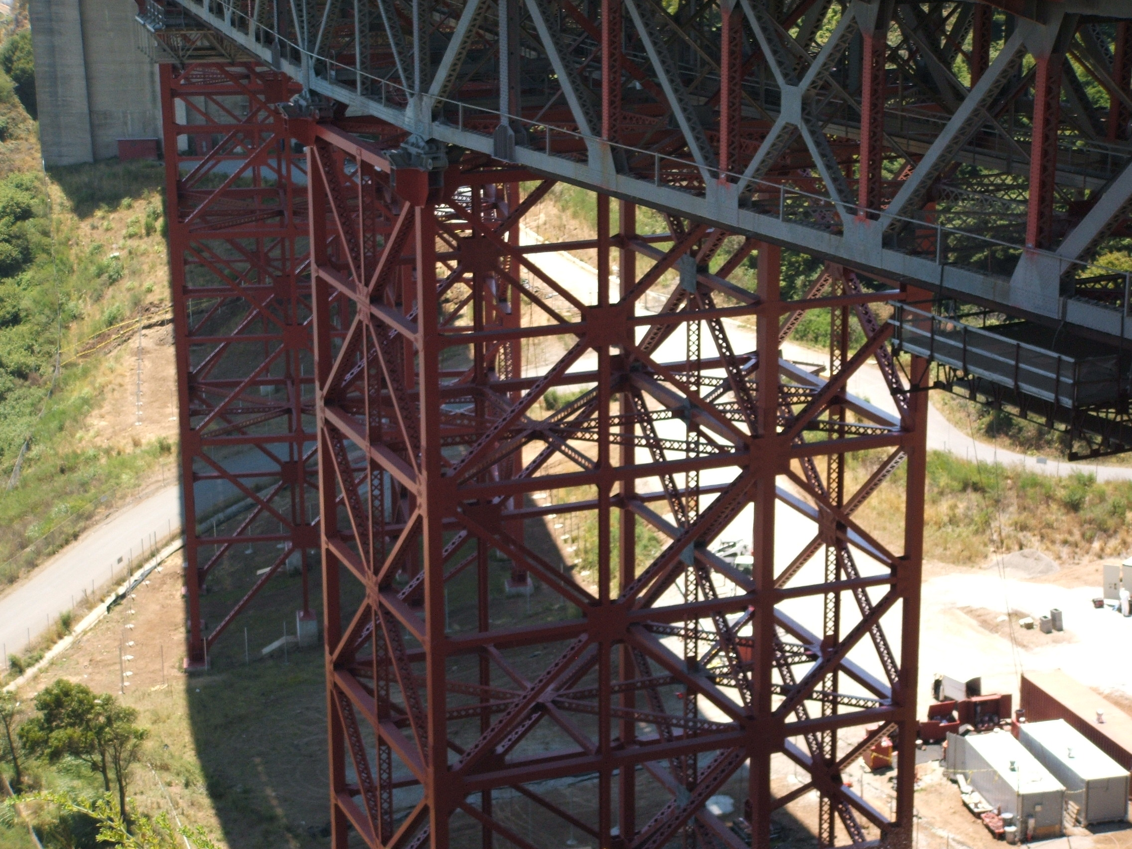 Golden Gate Bridge architecture